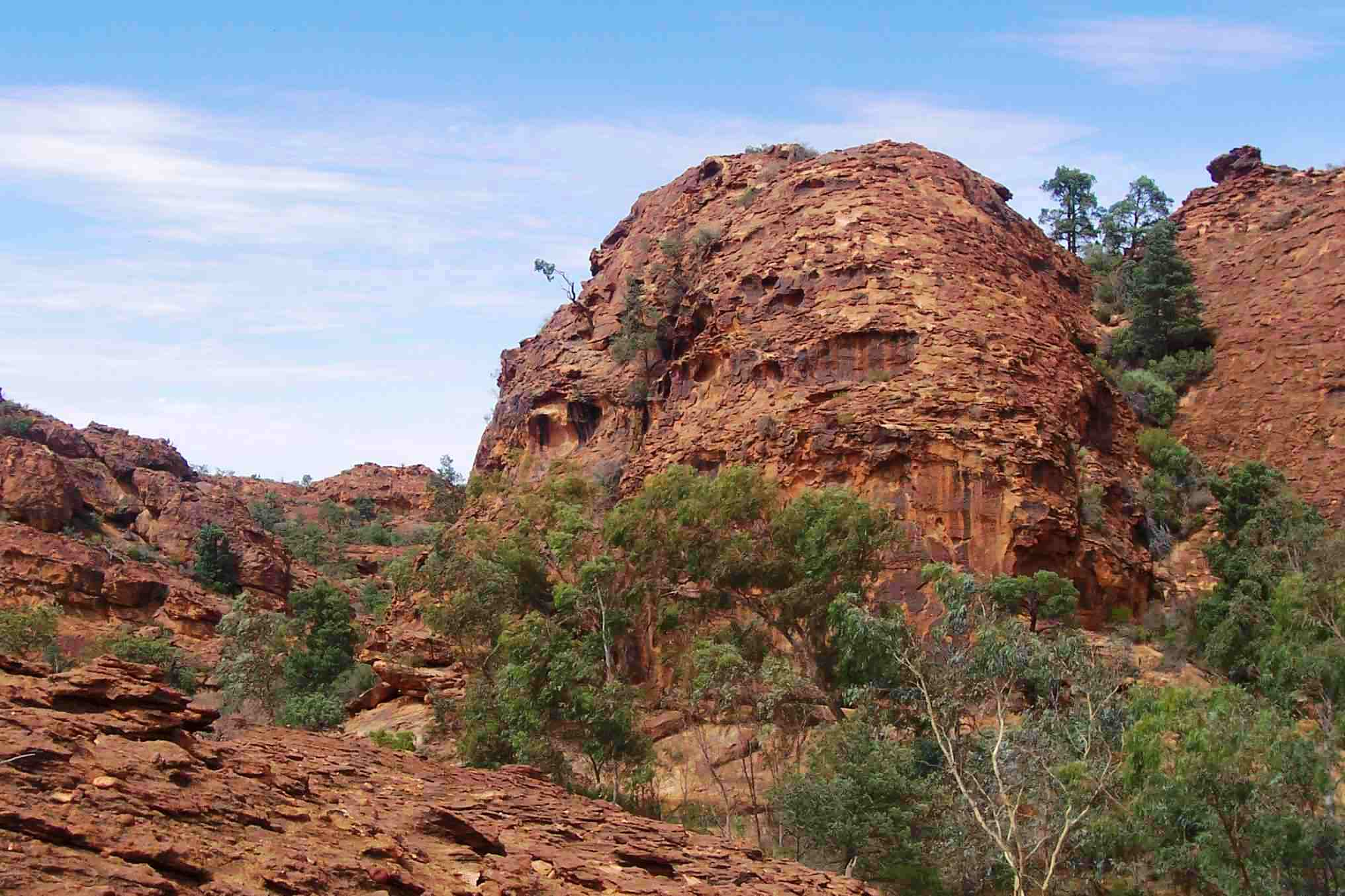 Mutawintji1_-_dome